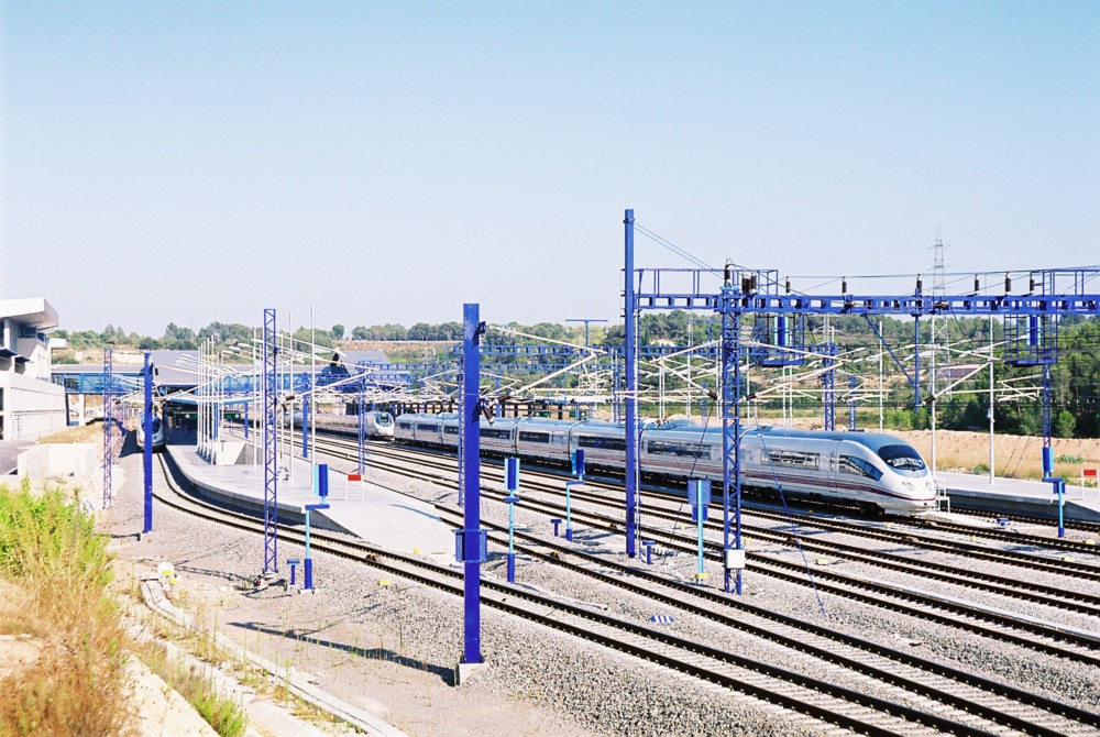 103-007 (Siemens Velaro E) at the railway station of Camp de Tarragona